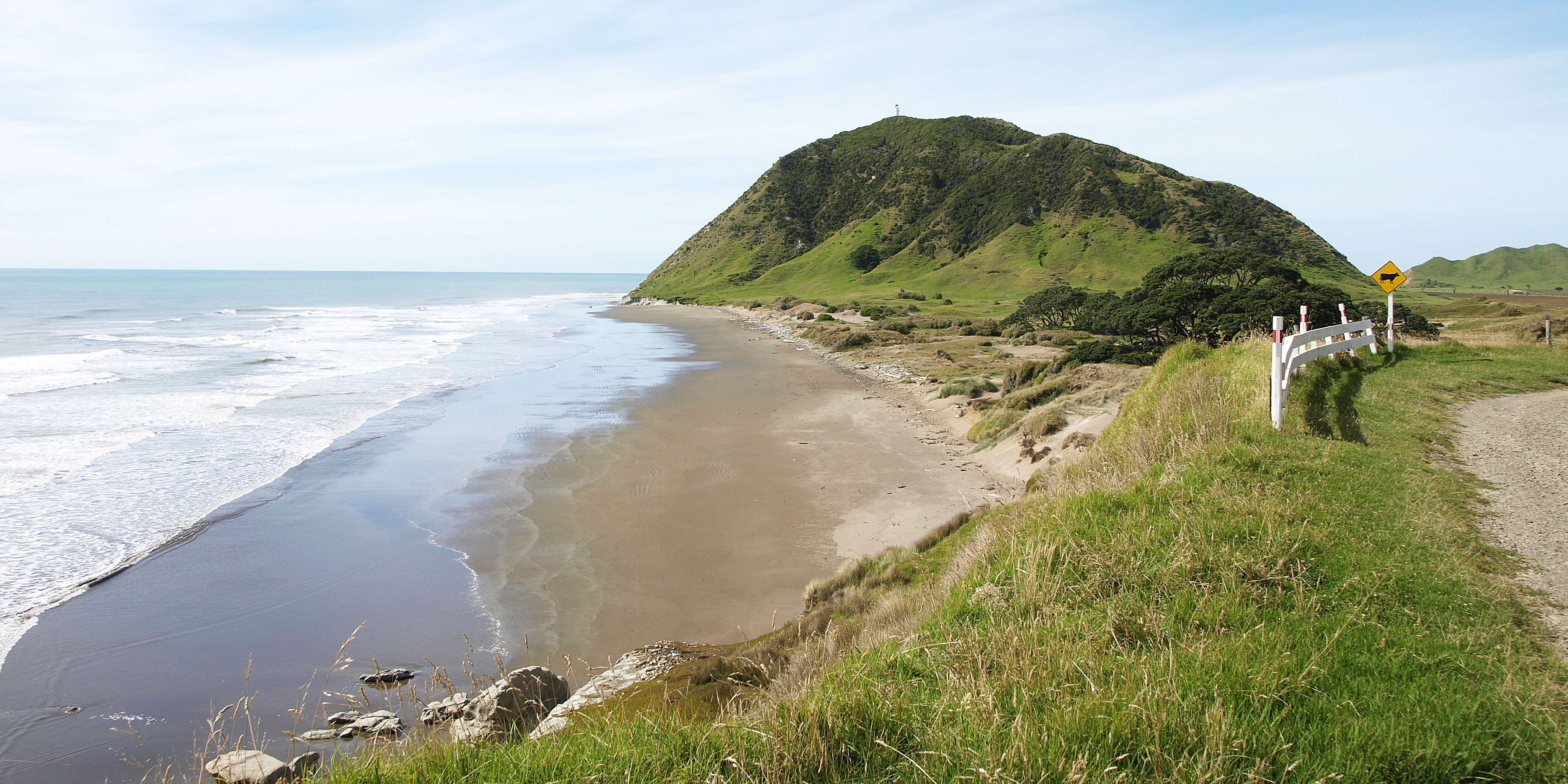 East Cape with Otiki (hill) and East Cape Lighthouse, Gisborne District, North Island, New Zealand. View from East Cape Road to the East.